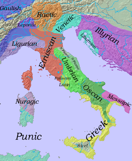 Languages in Iron Age Italy, ca. 6th c. BC